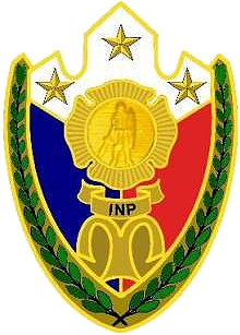 Seal of the Integrated National Police.